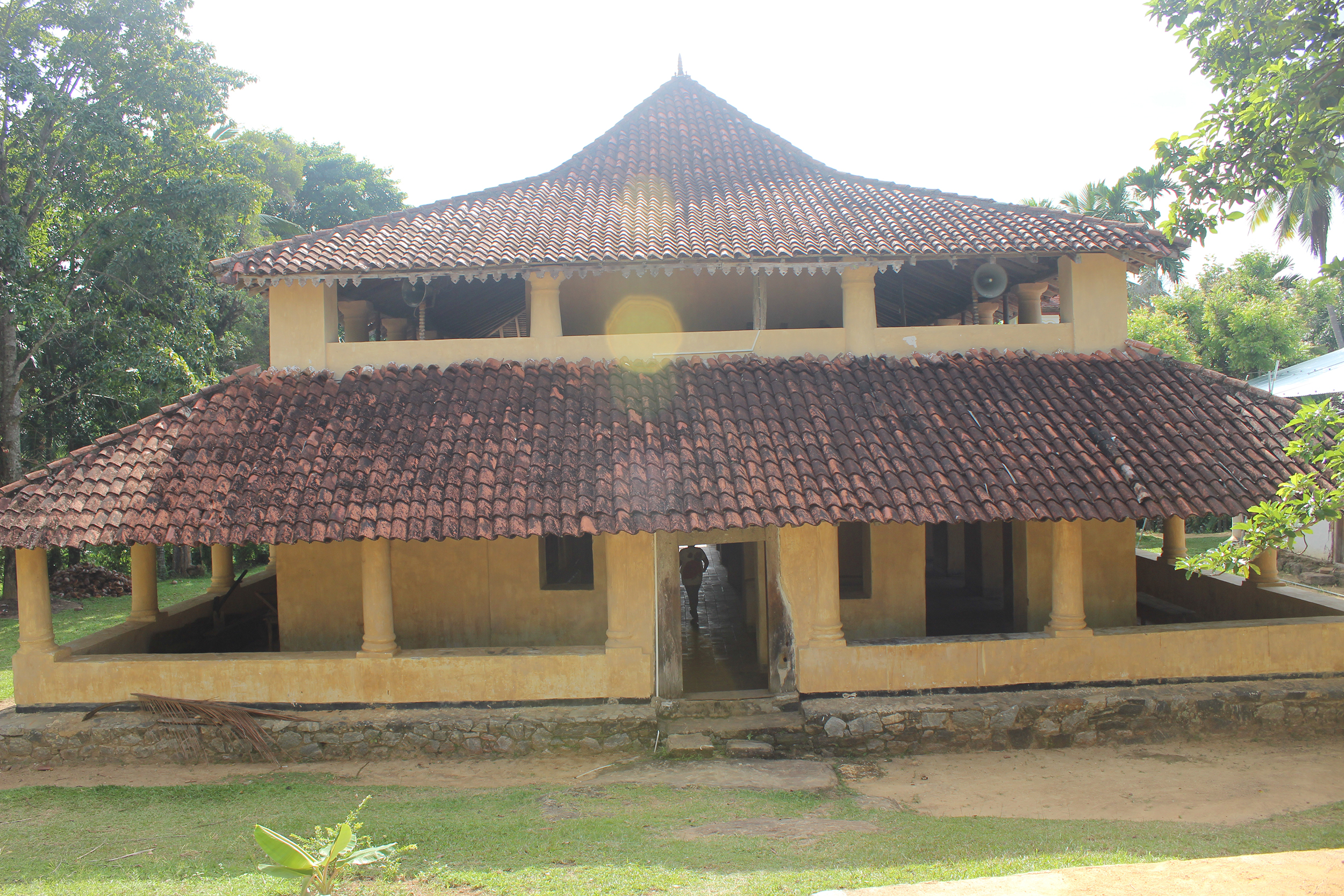 Dodantale Sri Seneviratnarama Uposita Rajamaha Viharaya